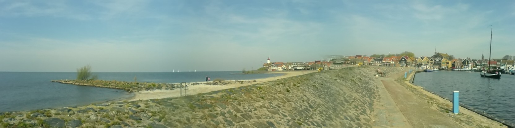 A panorama of Urk, with a view on the lighthouse and part of the harbour.